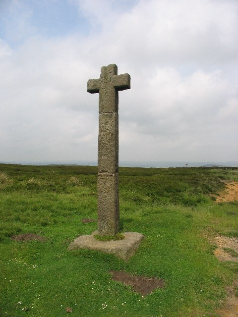 New Ralph Cross, Rosedale. Old Ralphs Cross is at NZ6701